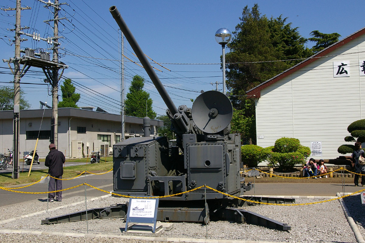 Taken by Los688,29-Apr-2007,JGSDF Camp-Shimoshizu.JGSDF M51 AAA,Air Defence Artillery School.PD-self. ja:2007年4月29日、投稿者撮影。陸上自衛隊下志津駐屯地。M51 75mm高射砲、高射学校敷地内展示。